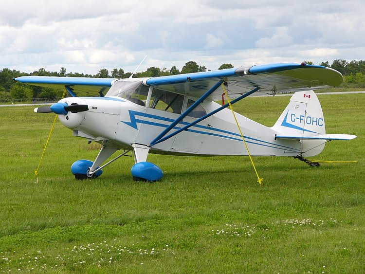 I took this photo of a Piper PA-16 Clipper (C-FOHC) at the Short Wing Piper Convention in Kingston on 06 July 2006.